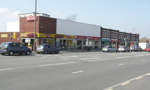 Parade of Shops These are on Wimborne Road, Oakdale.